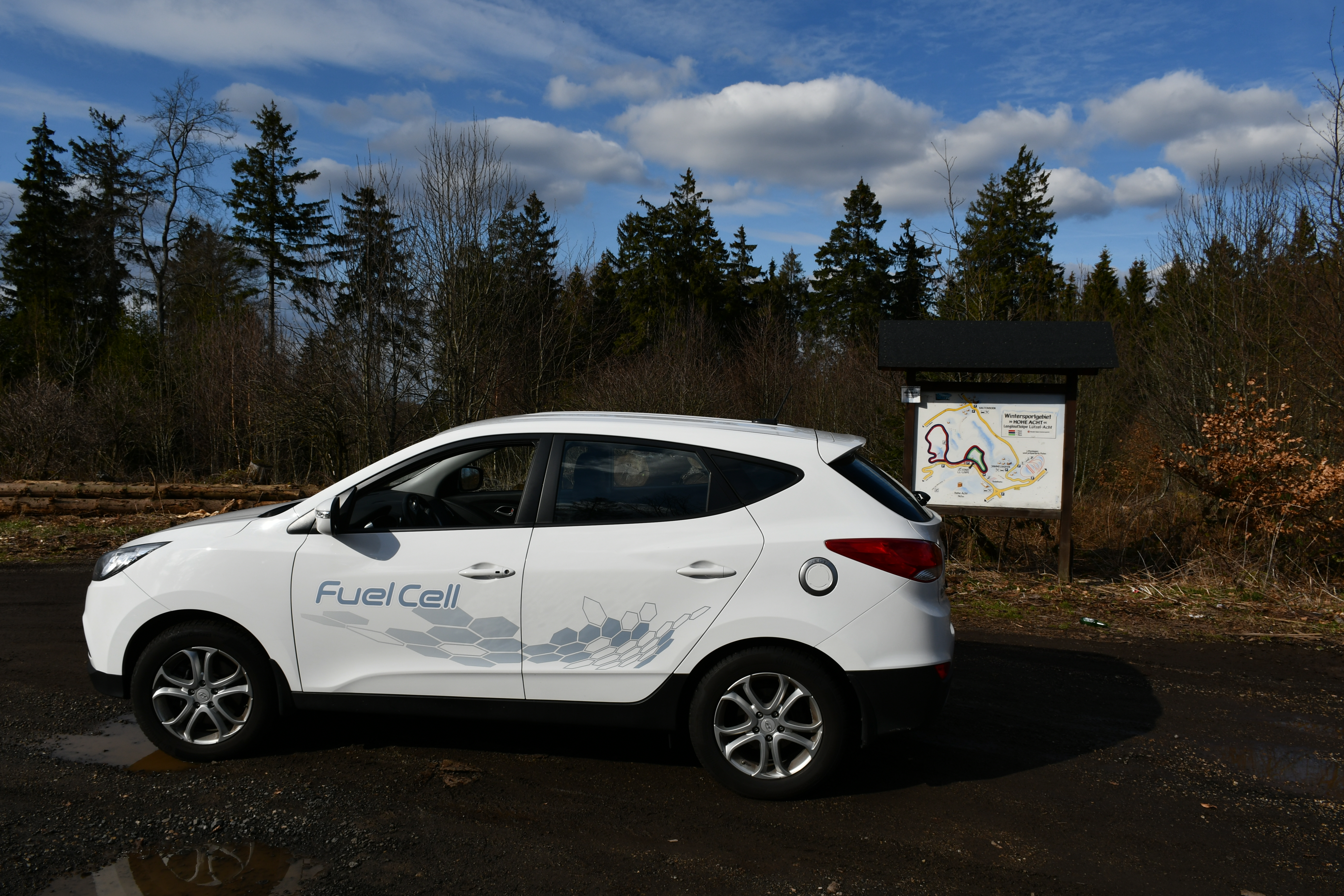 The Hyundai ix35 FuelCell car at the Hohe Acht mountain in Eifel near the Nürburgring racing course.